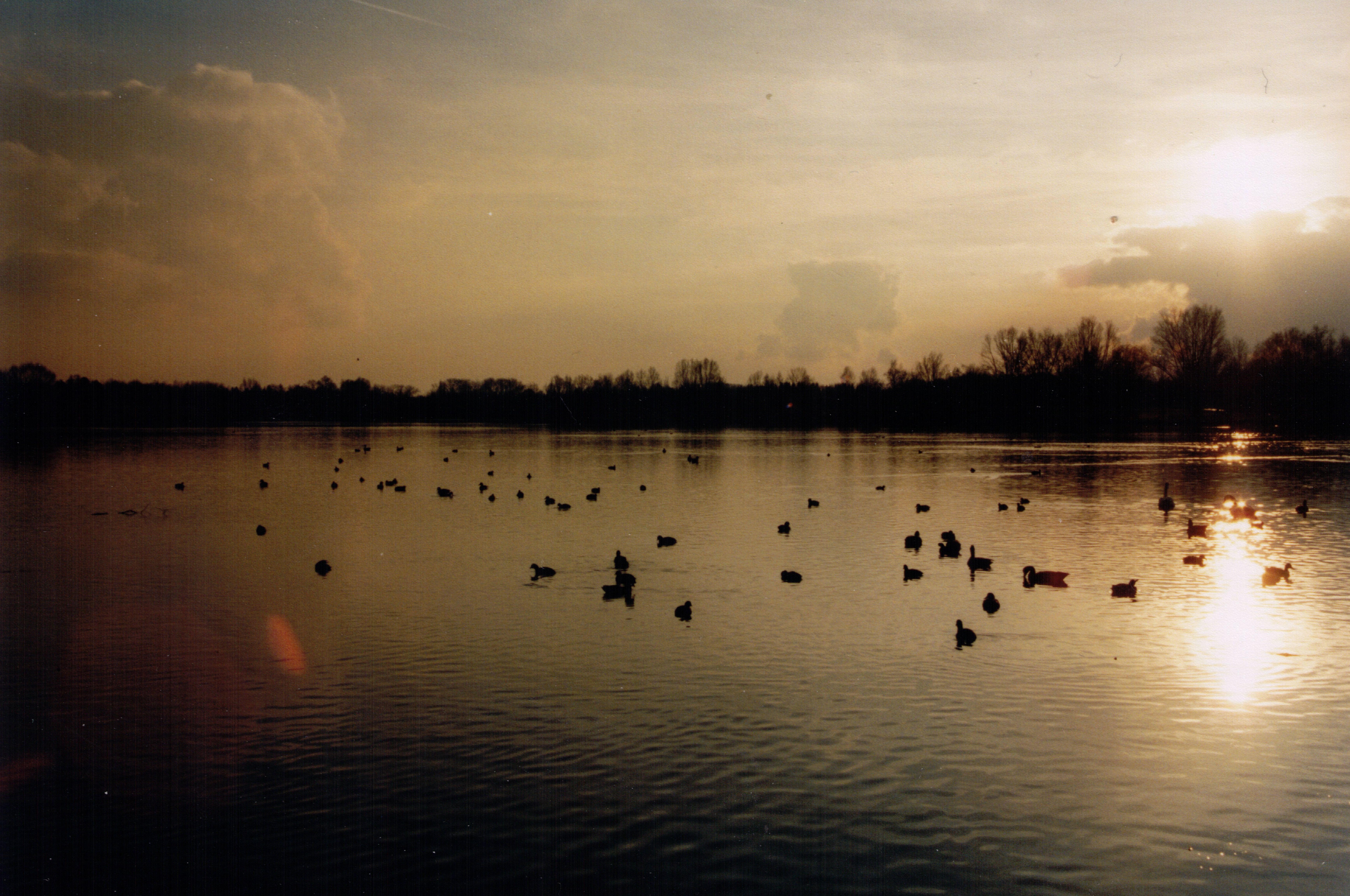 Feldmochinger See in Munich, Bavarian